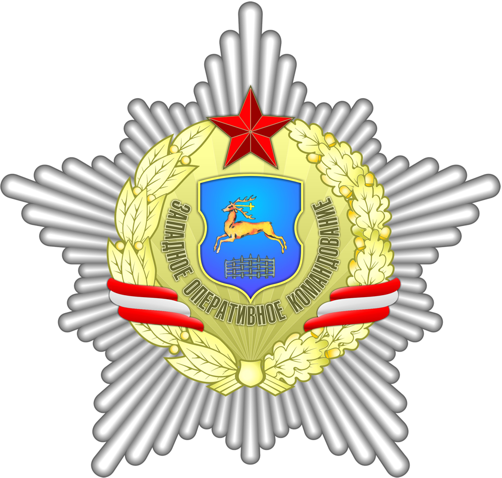 Insignia of Belarusian Western Operational Command (ZOK)